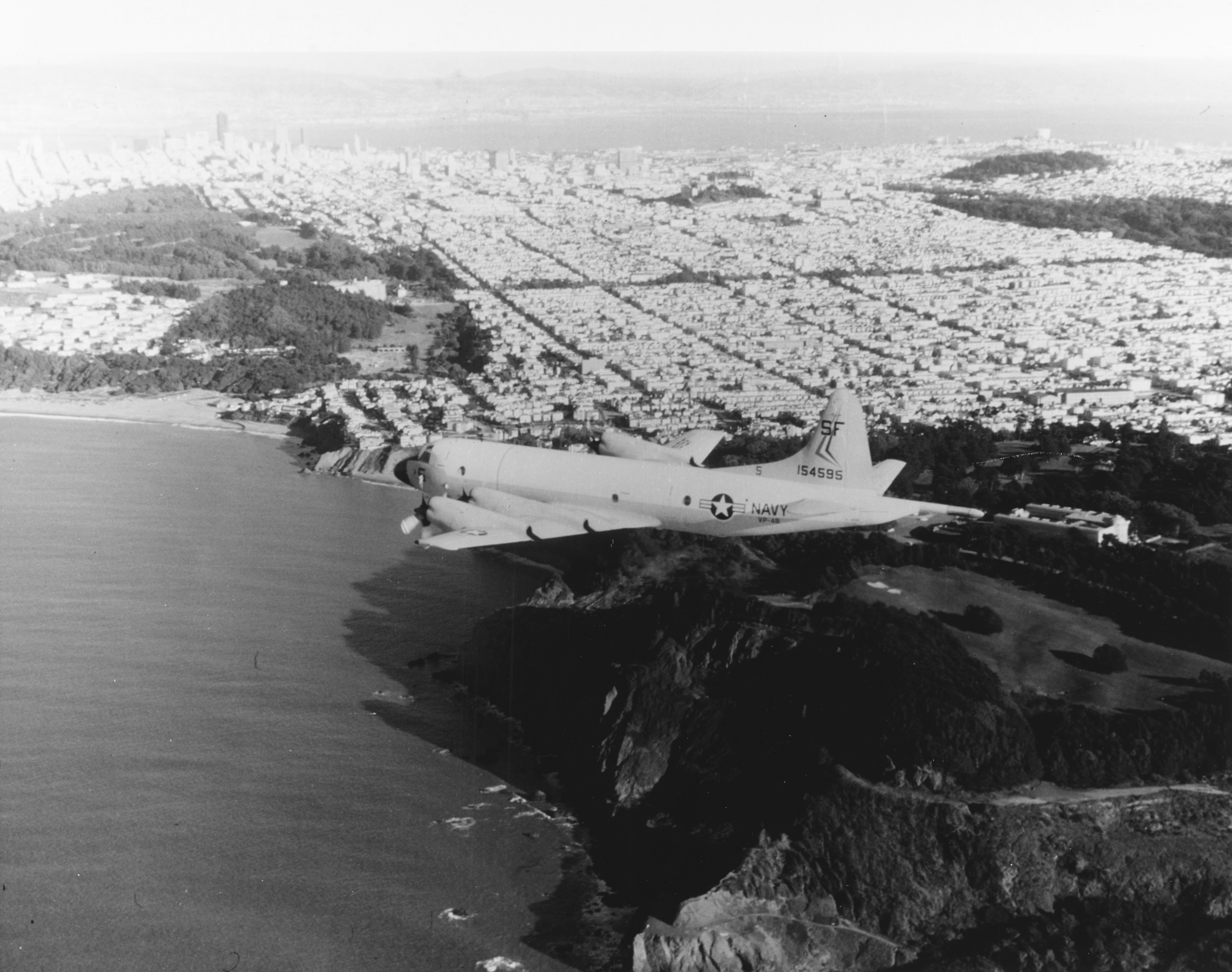 The U.S. Navy Lockheed P-3B-105-LO Orion (BuNo 154595) of Patrol Squadron 48 (VP-48) in flight over San Francisco, California (USA), on 28 January 1970.